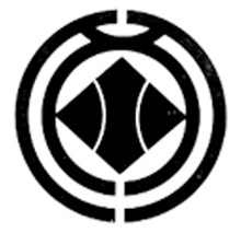 Ogano Saitama chapter